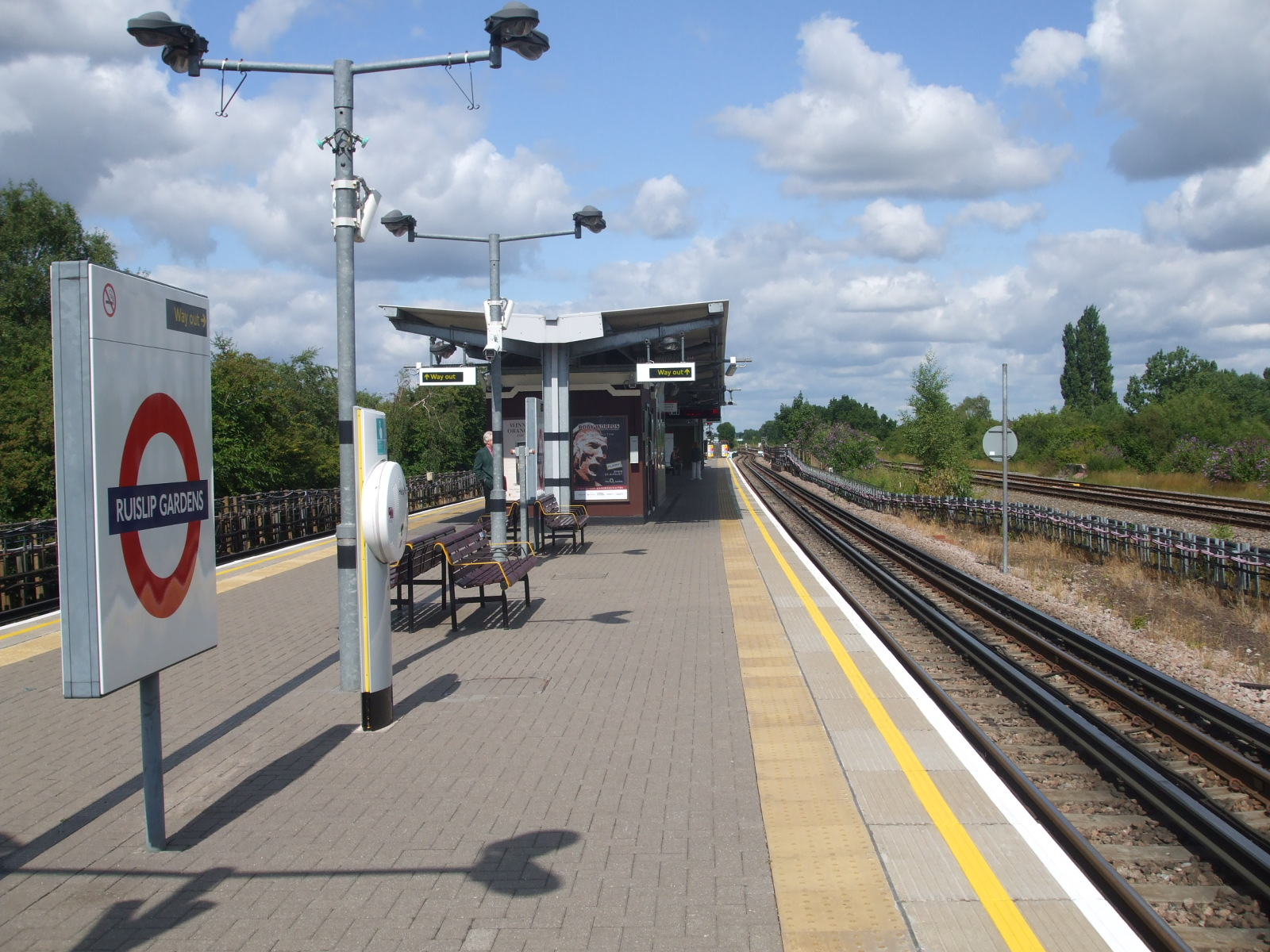 Ruislip Gardens tube station island platforms looking west. Chiltern Railways (no platforms here) visible on the right.